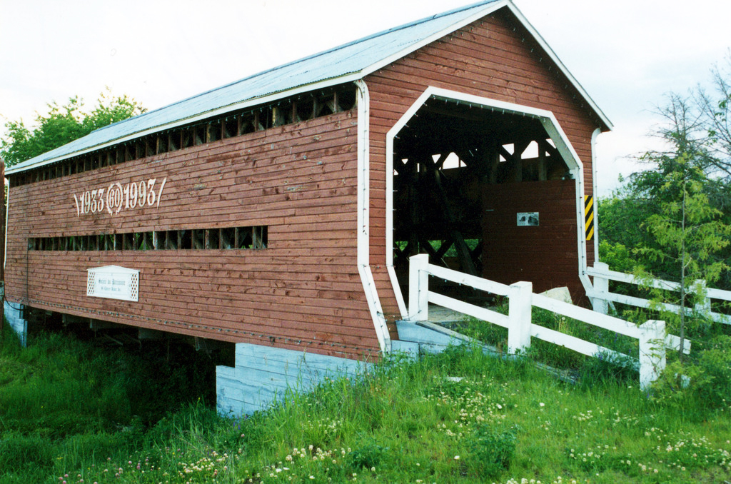 Patrimoine de Saint-Ephrem